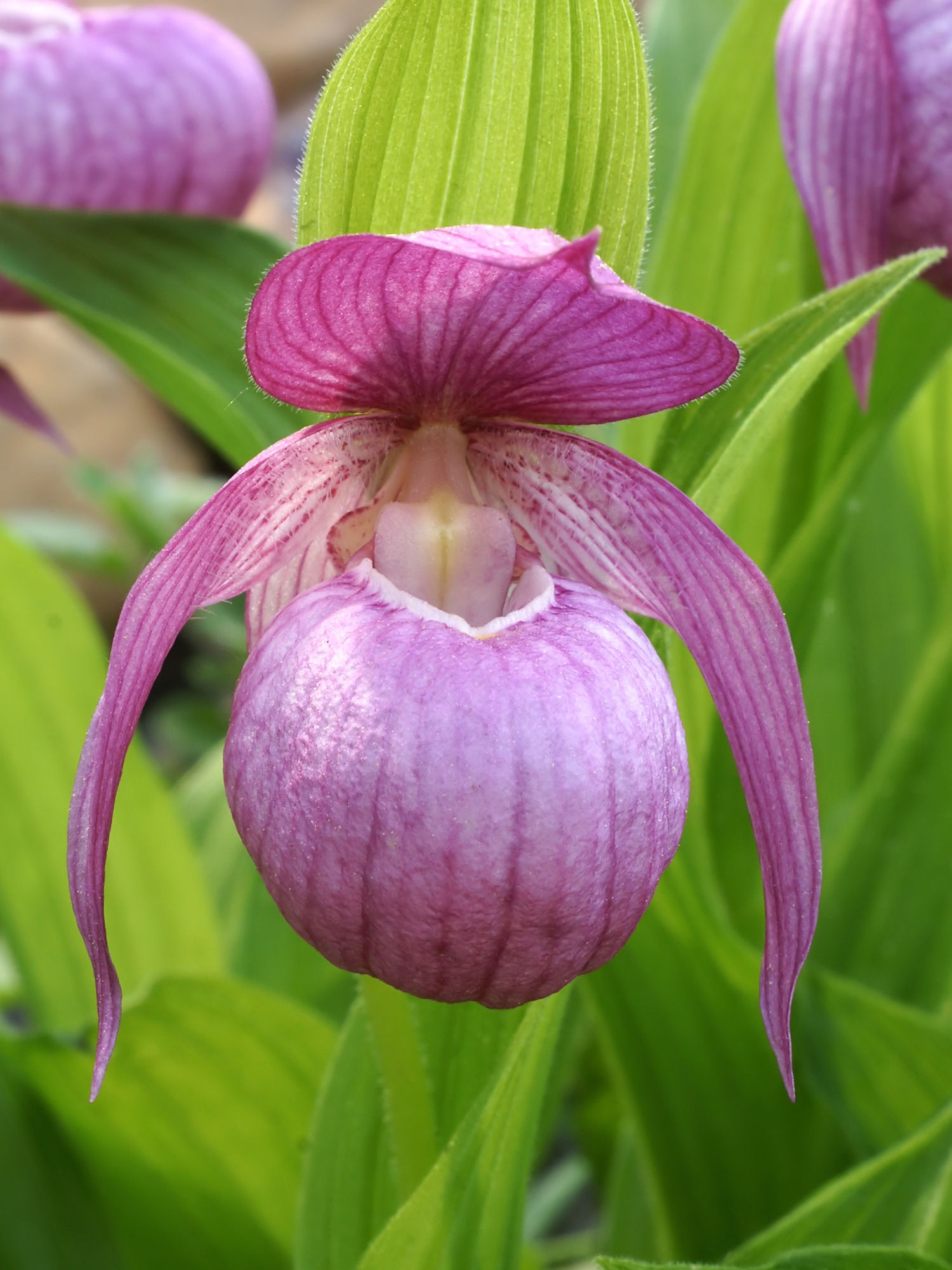 Cypripedium macranthos